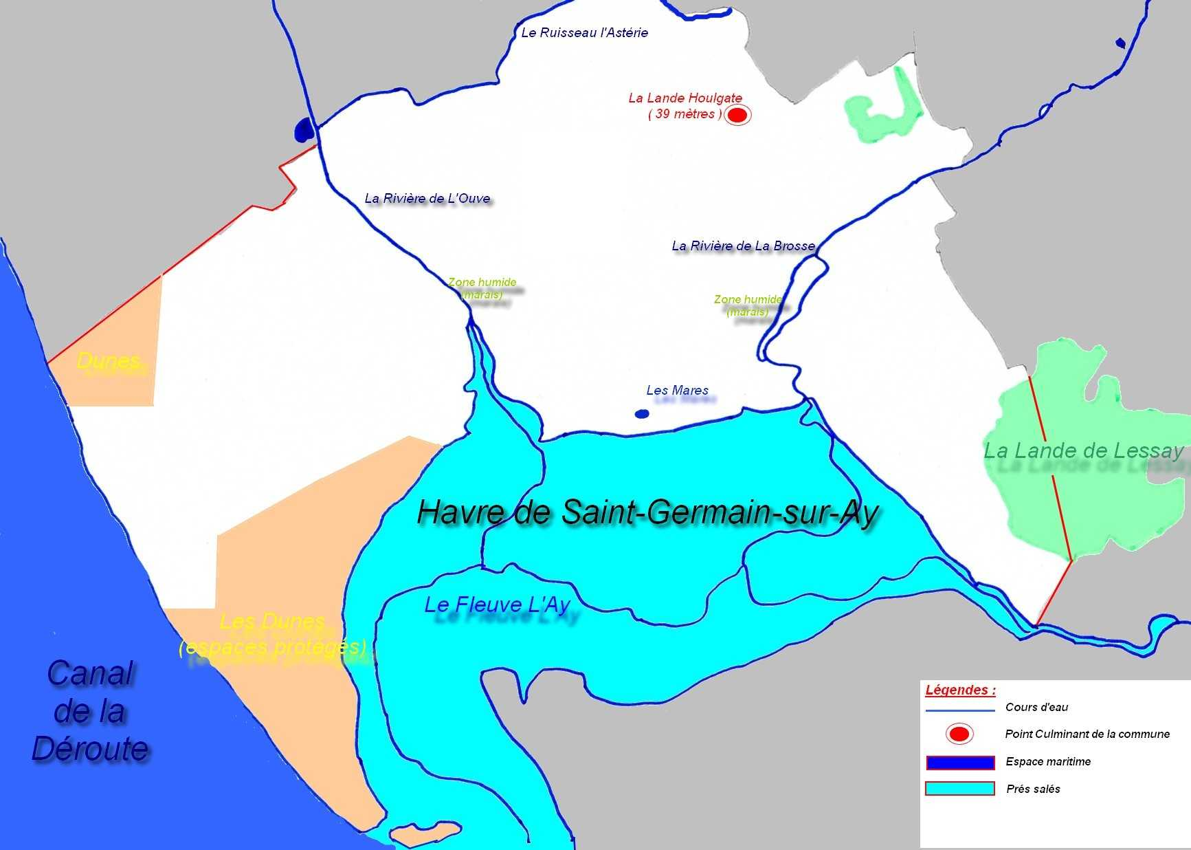 Map of Saint Germain sur Ay